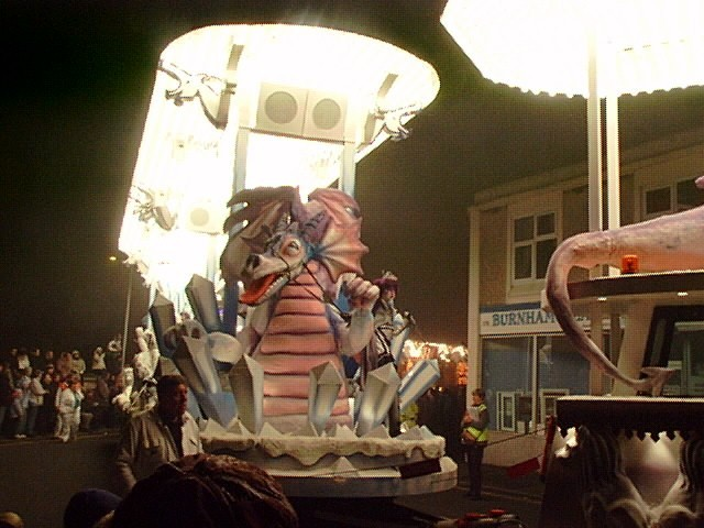 Dragon on "Ice Warz" by Pentathlon CC, Burnham on Sea Carnival 2006